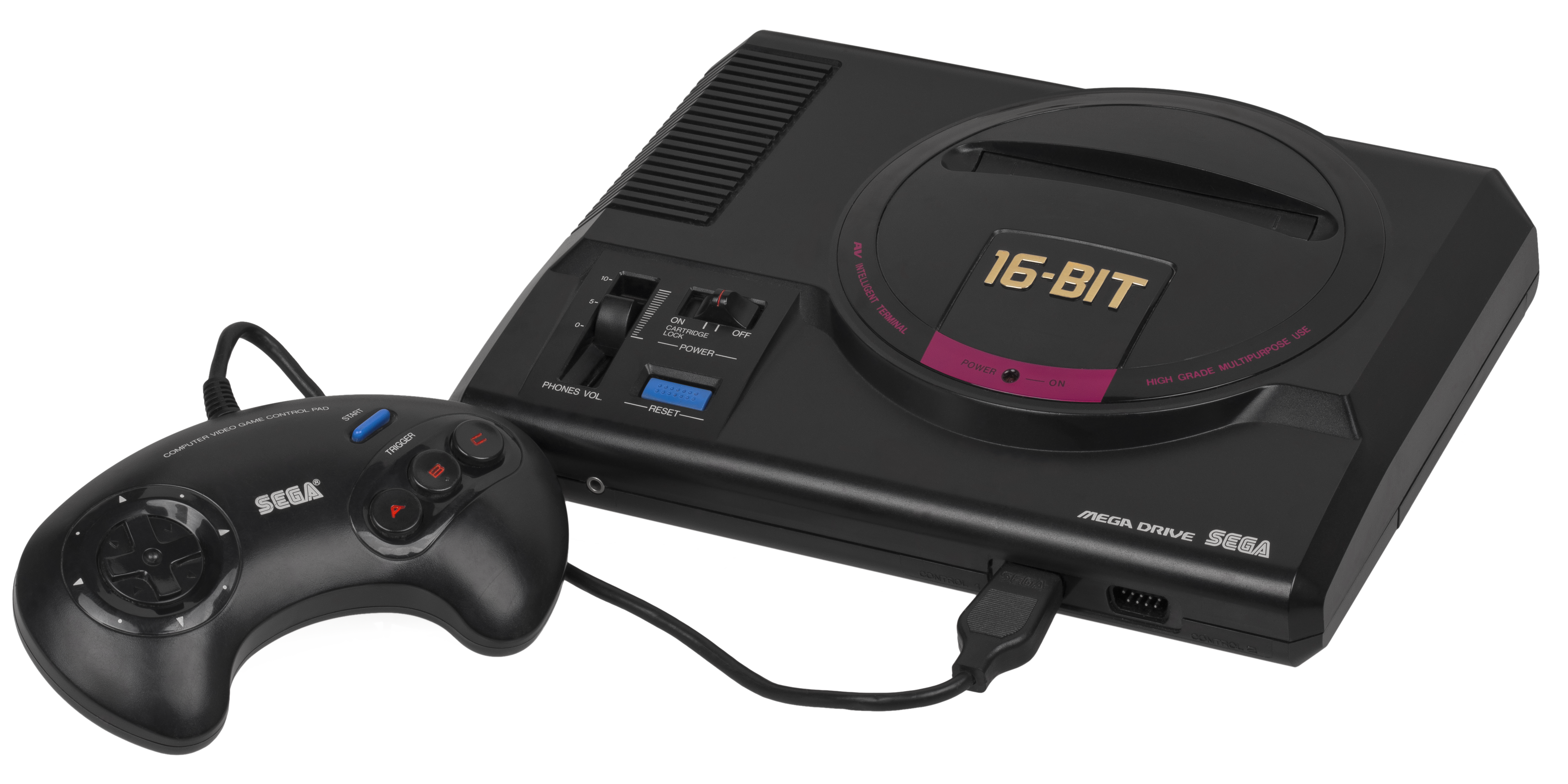 A Japanese Sega Mega Drive (Sega Genesis in America) video game console shown with controller. This is the first model version of the console.